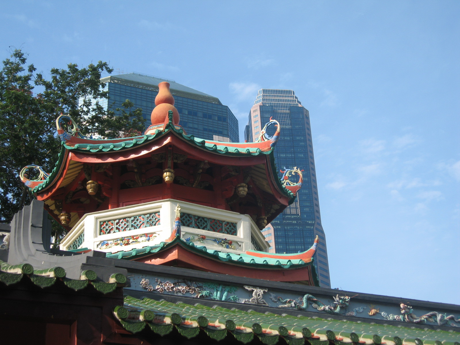 Thian Hock Keng Temple.